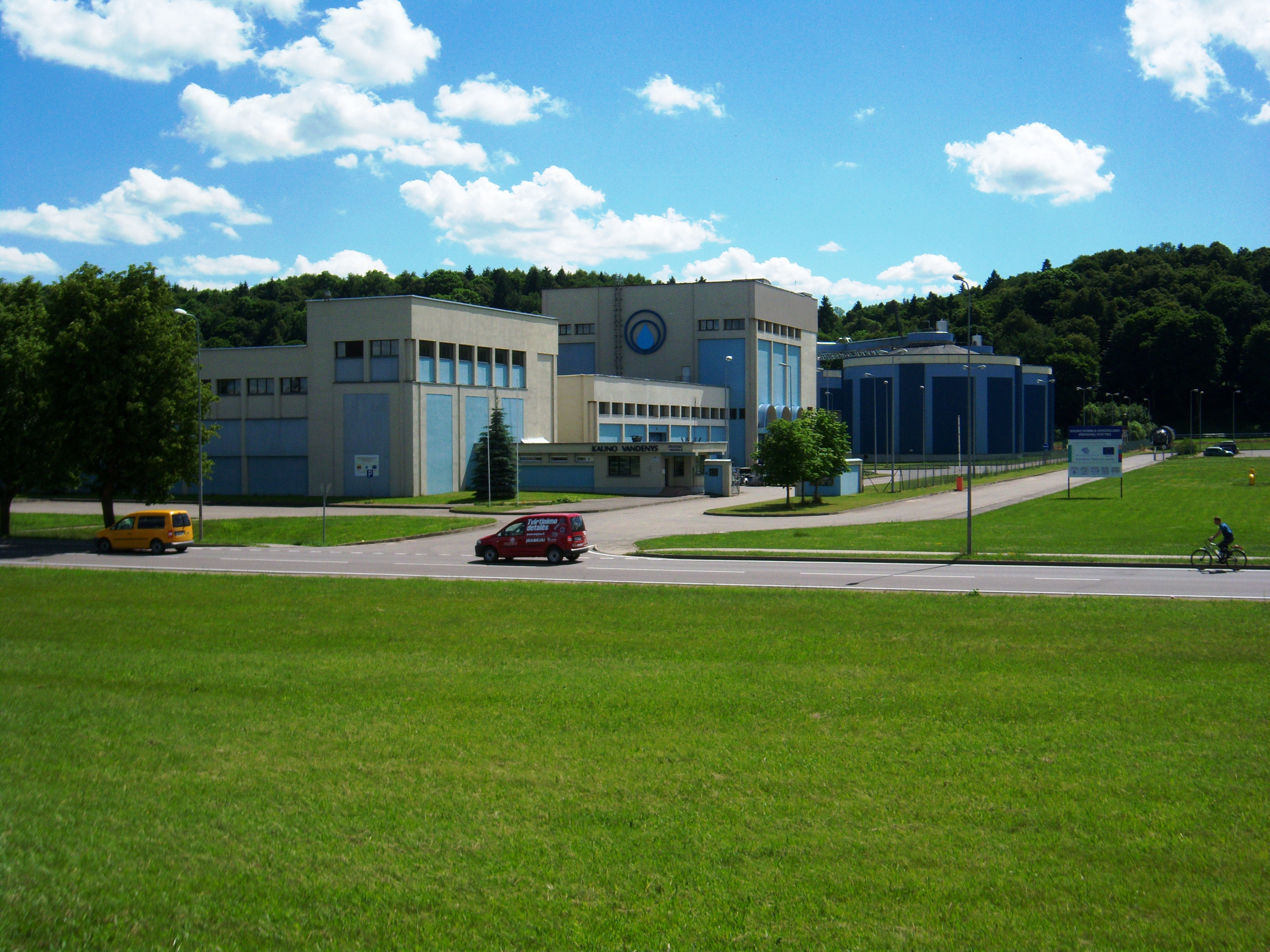 Joint Stock Company „Kauno vandenys“, wastewater treatment works, Kaunas. Lithuania